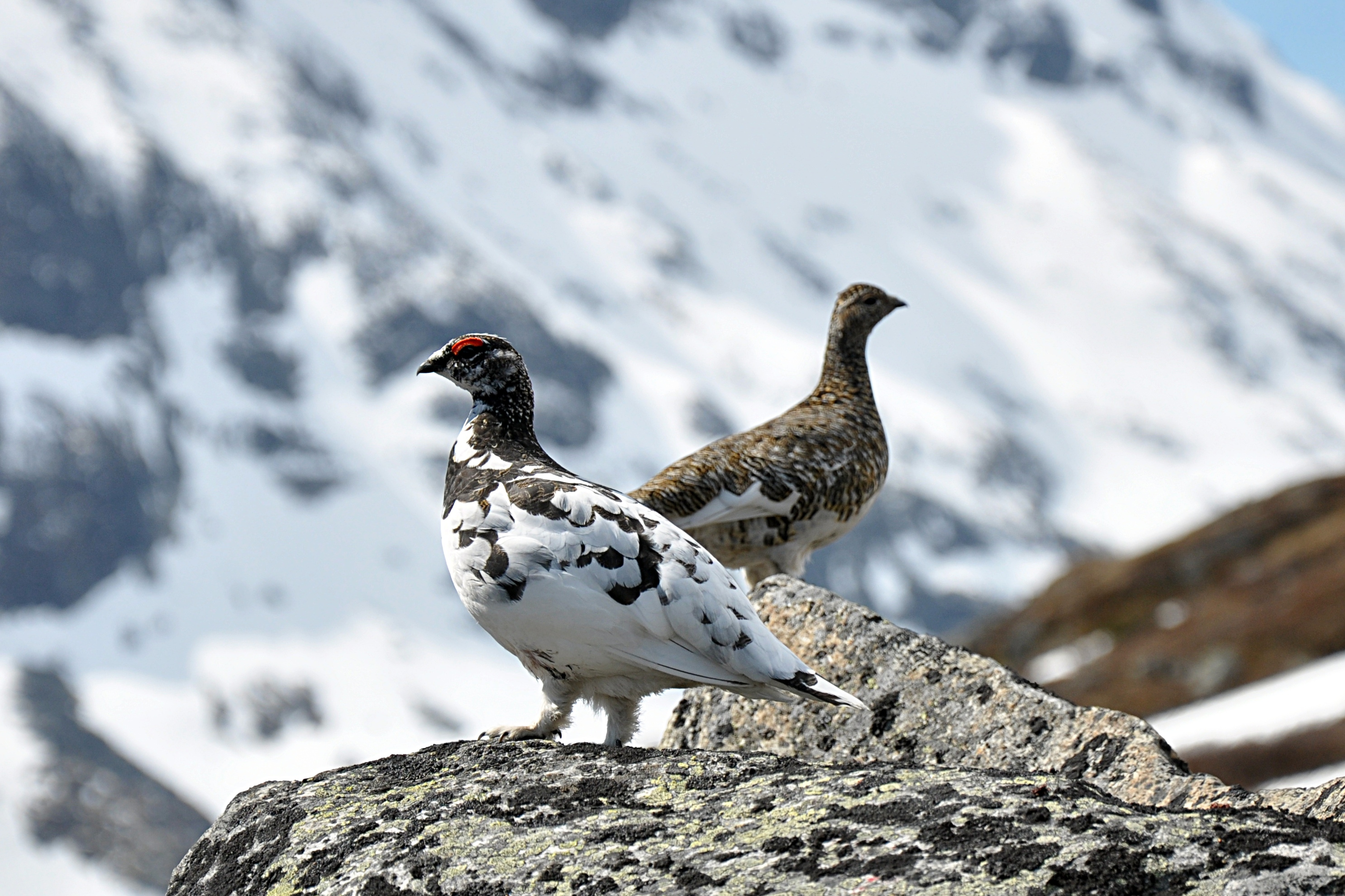 A pair of Rock Ptarmigan (Lagopus muta muta) photographed in Jotunheimen, Norway. Both sexes represented in picture, the male bird still has much of its winter plumage.